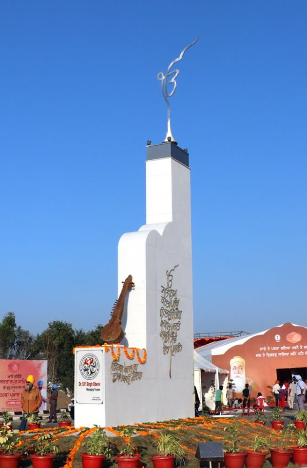 The art- installation at Indian side of Kartarpur Corridor , Dera Baba Nanak . It contains Rabab (music) Book ( Shabad) and Ang Ik omkar (main chaint) .These symbols represents thought of Baba Nanak and Sikhism .Rabab 5.25 ft long is made of copper and 4 other metals. Ik onkar is written with stainless steel.It rotates in one round in 1 mintue . The Concept- sculpture-installation is designed by the artist Swarnjit Singh Savi